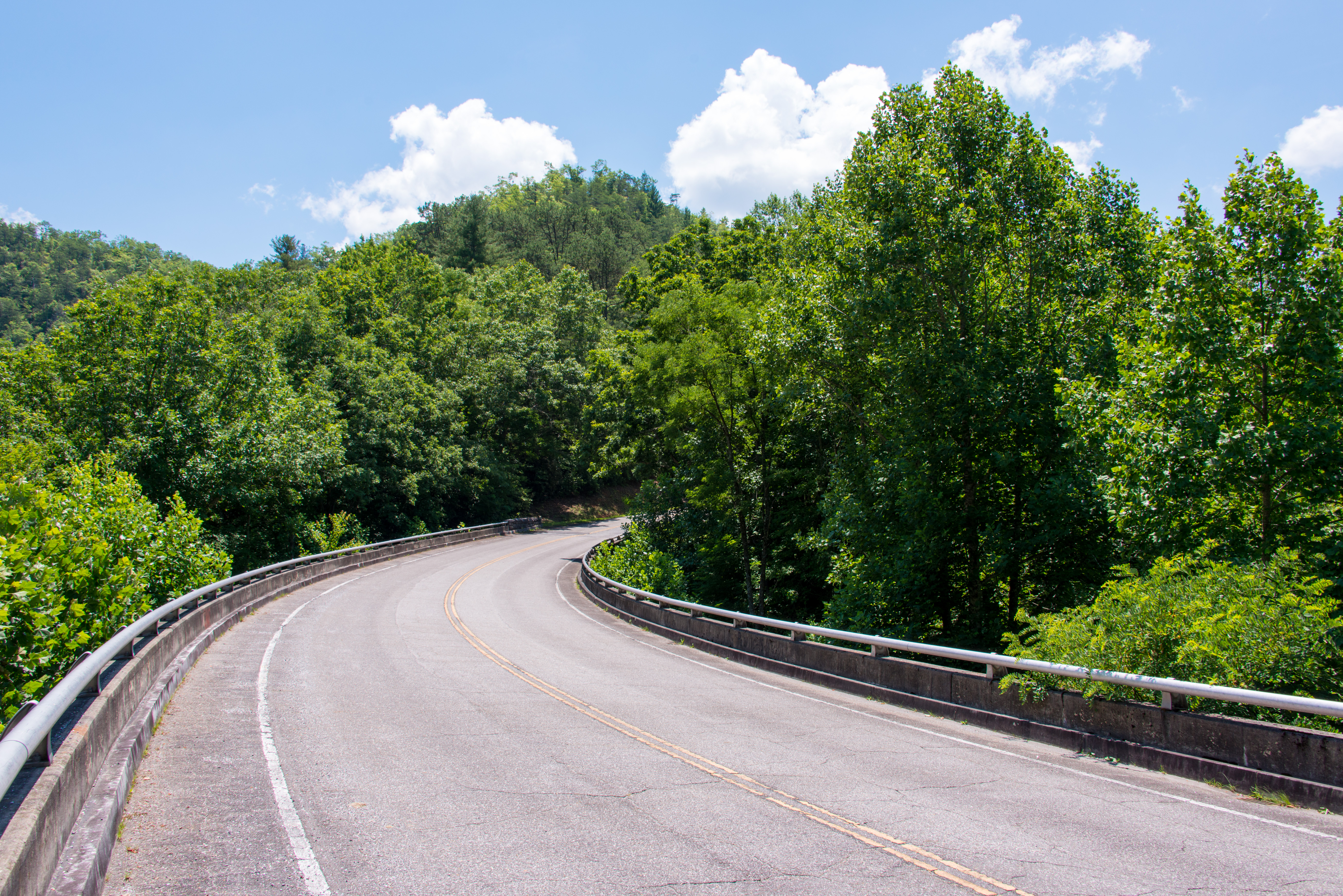 This curved bridge over Noland Creek, completed in 1971, is found along Lakeview Drive (aka Road to Nowhere).